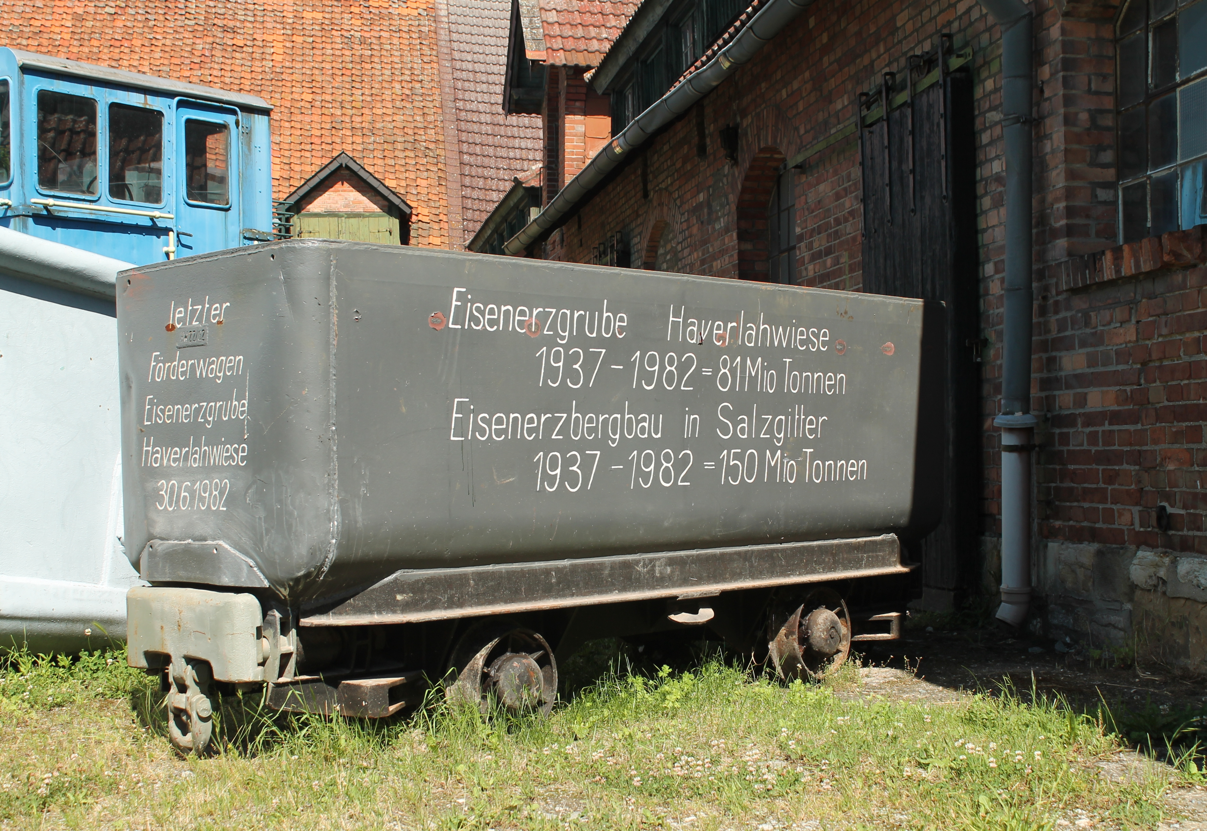 Last mining cart from Haverlahwiese mine. Salder castle museum, Salzgitter, Lower Saxony, Germany.